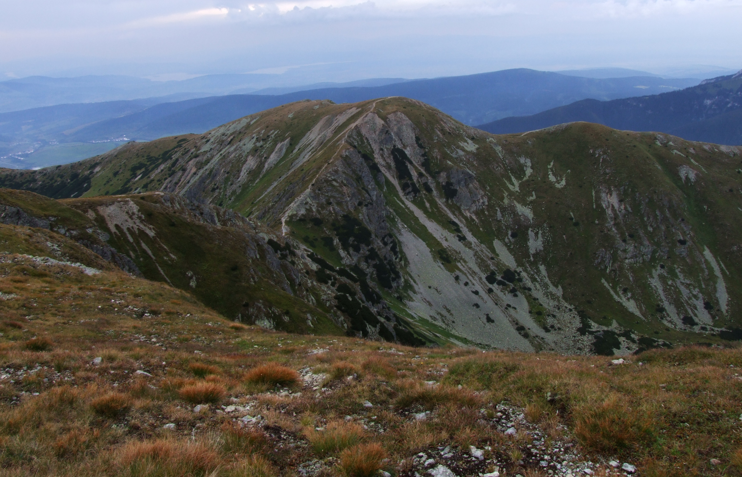 Brestowa (West Tatra Mountains)